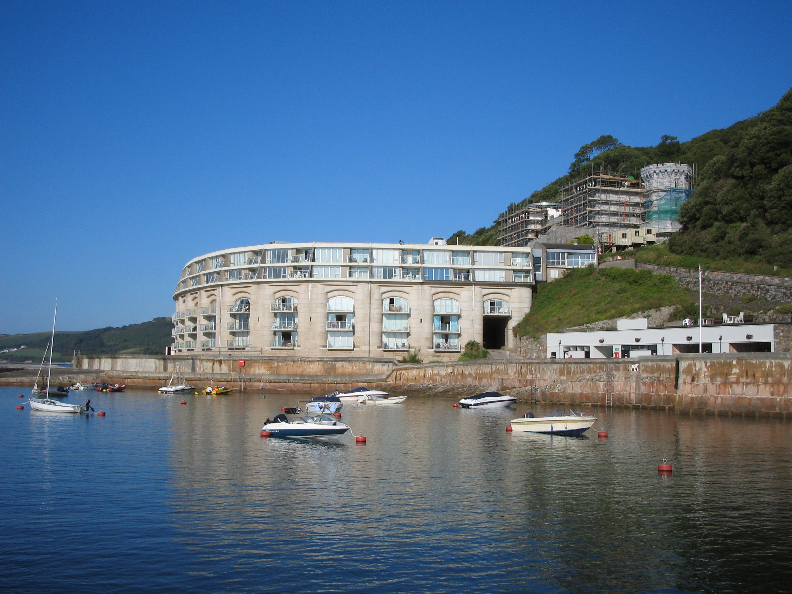 Picklecombe Fort